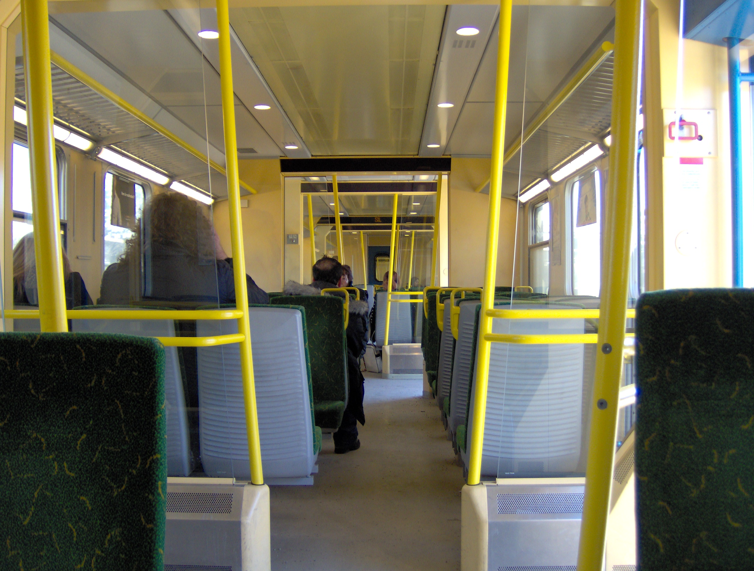 Interior of commuter train type X10